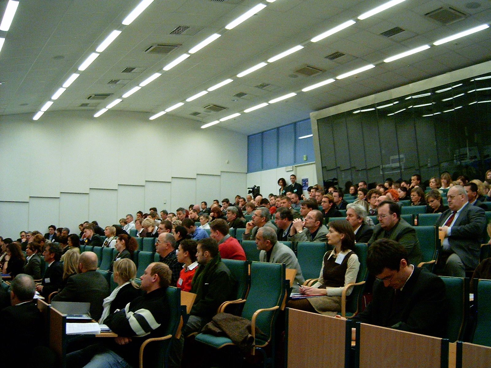 Cracow University of Economics - Lecture Room 9.JPG